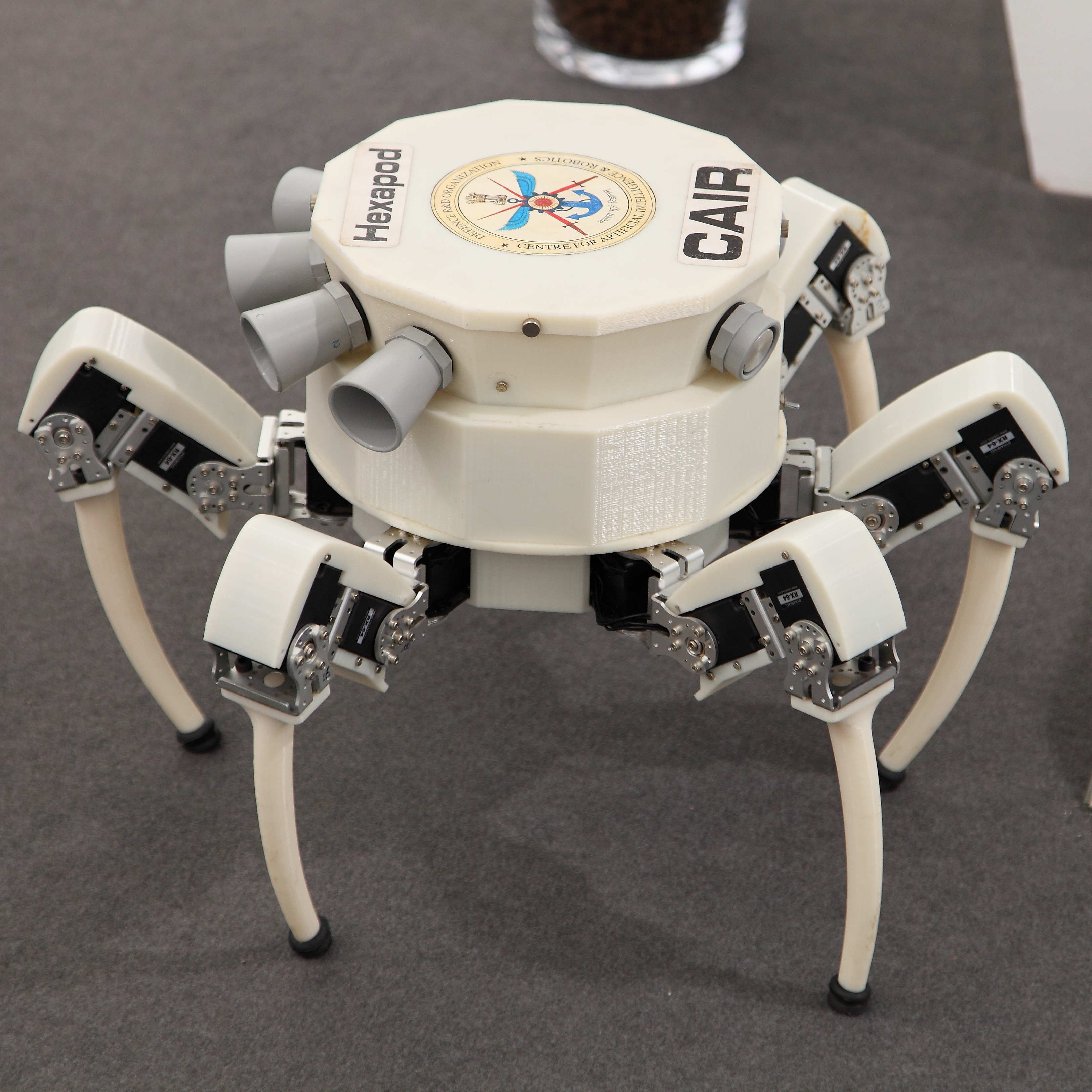 ILA Berlin Air Show 2012 ; The Centre for Artificial Intelligence and Robotics (CAIR) is a laboratory of the Defence Research & Development Organization (DRDO)